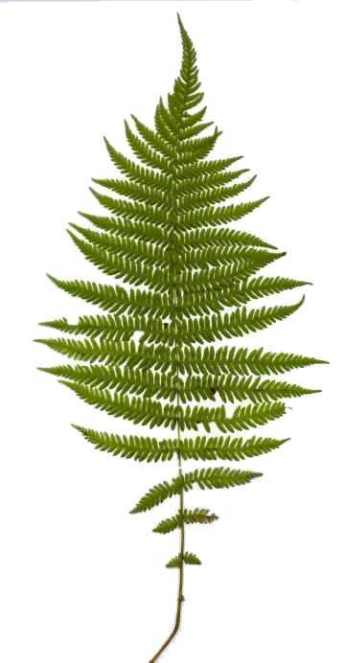 A scan of a frond of Thelipteris noveboracensis from Soldiers Delight.